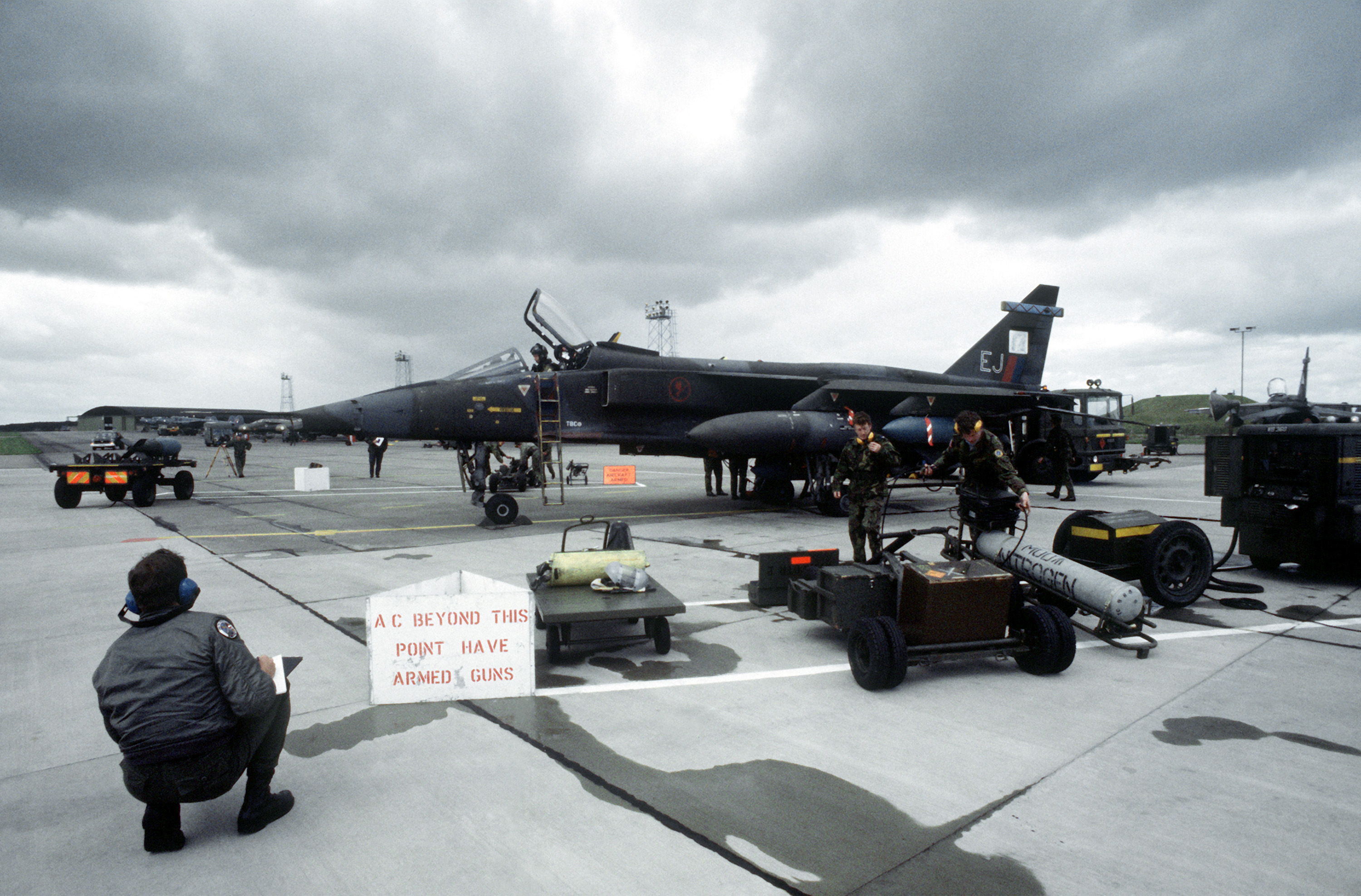 A judge observes maintenance performance of a Royal Air Force team on a SEPECAT Jaguar GR1 aircraft of No. 6 Squadron RAF during the quick turn phase of the "Strike Command Bombing Competition" between British and U.S. forces at RAF Lossiemouth, Scotland (UK), on 15 June 1981.